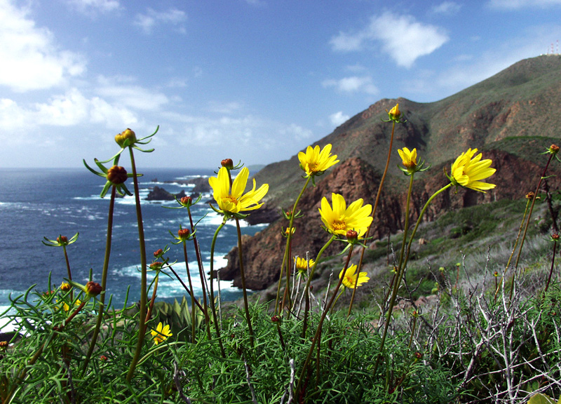 Baja California coast in spring. Photo taken in the Municipality of Ensenada, Baja California. Yellow flowers of California bush sunflower (Encelia californica), of the California chaparral and woodlands ecoregion.